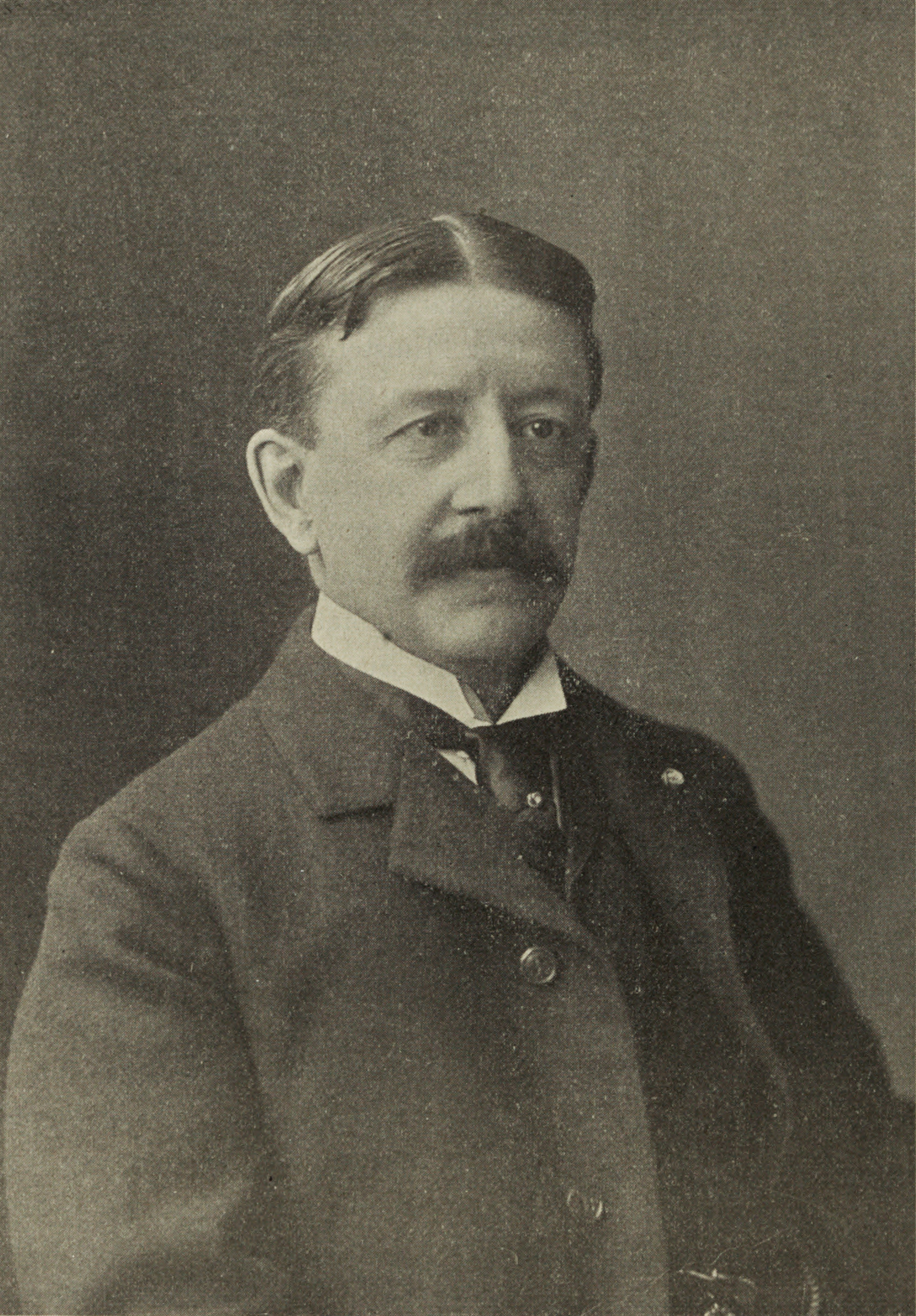 Durham White Stevens, American advisor to Japan who was later assassinated in San Francisco